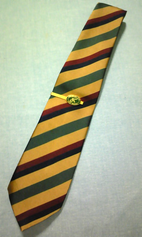 This is a picture of a necktie with a tie clasp of Tokushimakita Senior High School.